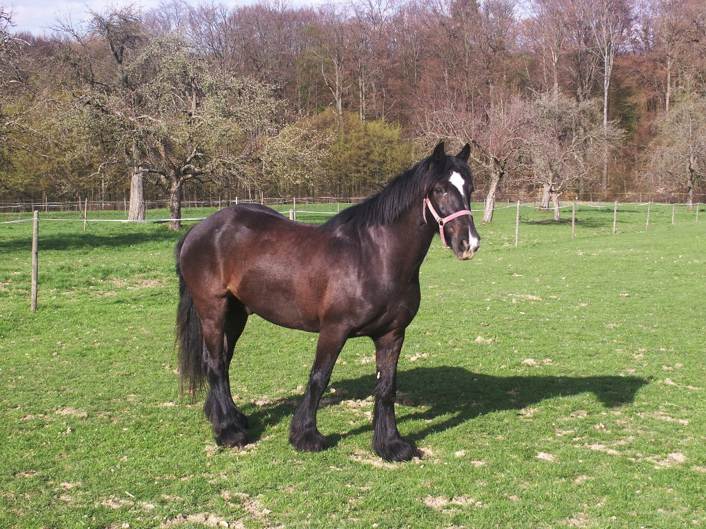 12-year old Shakespeare, a Dales Pony